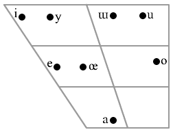 IPA vowel chart for Turkish.